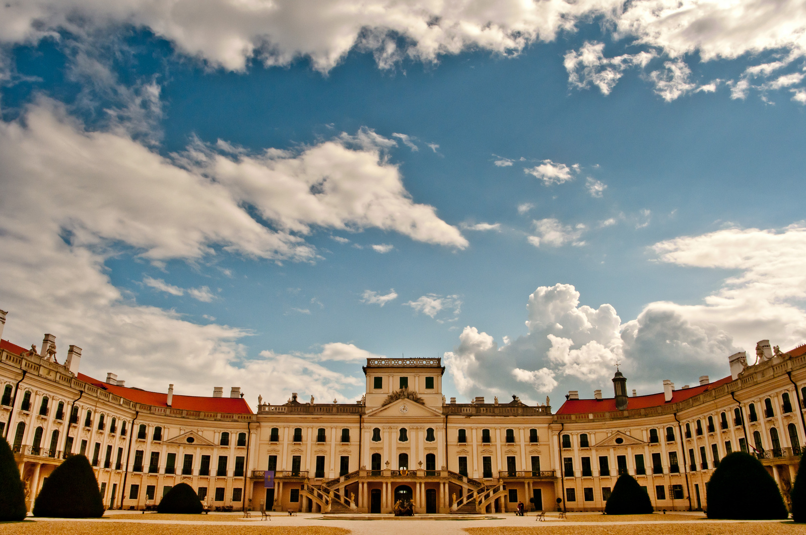 Eszterháza, Palace of the Dukes Esterhazy, Hungary